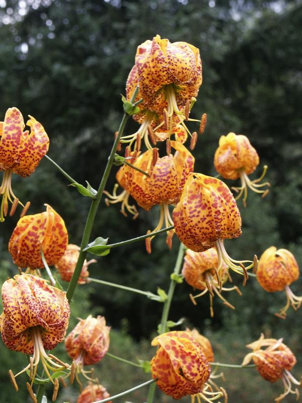 Lilium humboldtii (Humboldt's lily) — in the California native plants Regional Parks Botanic Garden. Located at Tilden Park, Berkeley, CA.